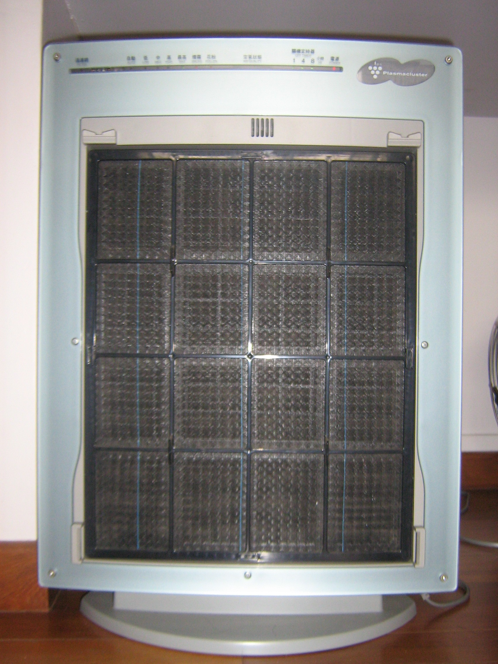 Sharp FU-888SV Plasmacluster air purifier internal.